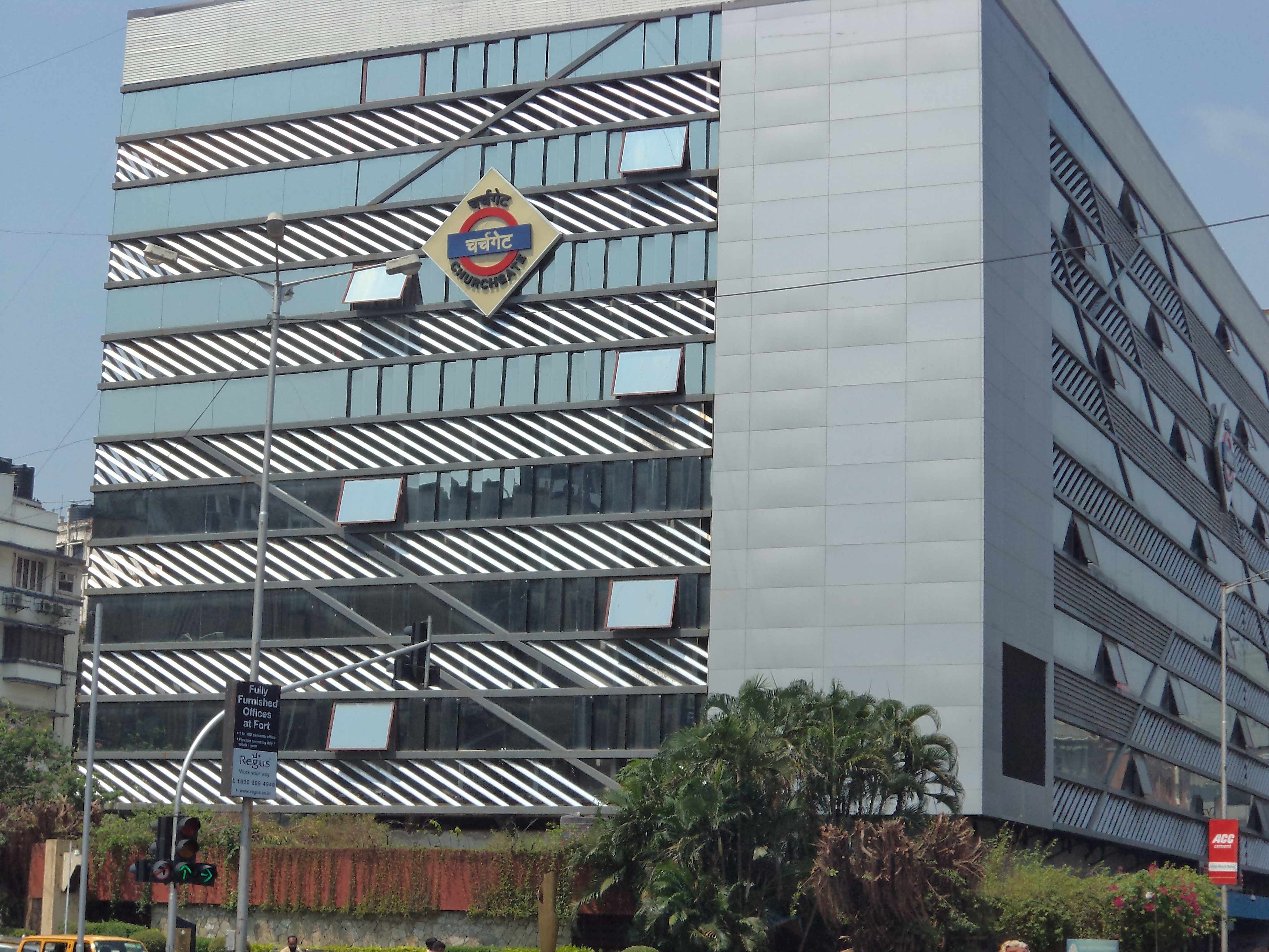 Churchgate railway station outside view mumbai